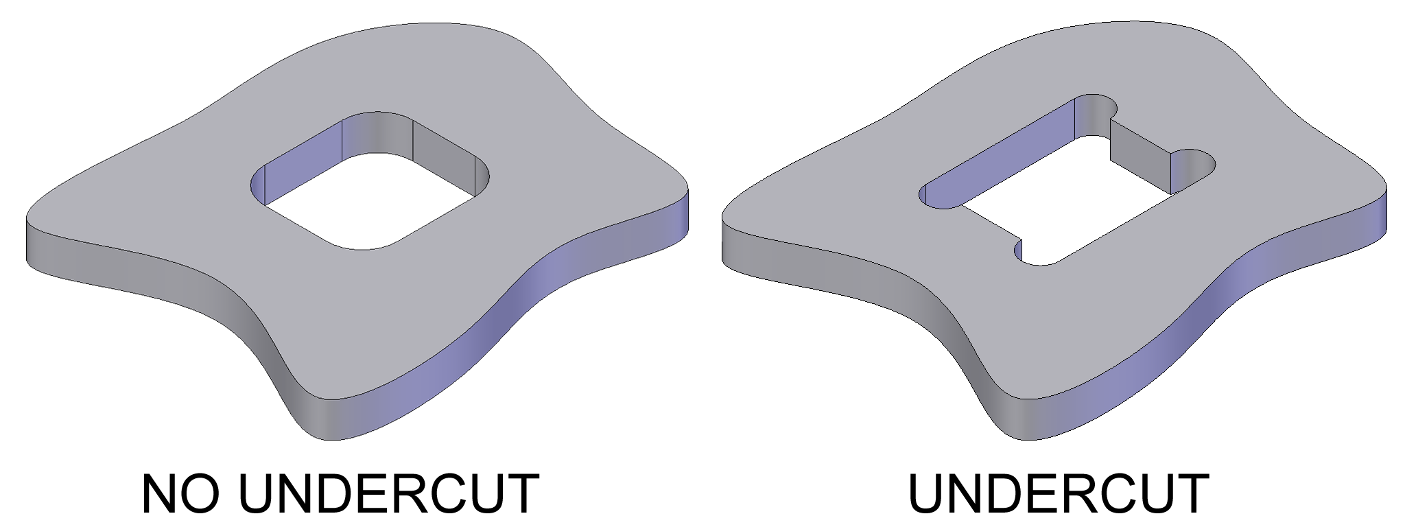 An example of an undercut on a machined part.